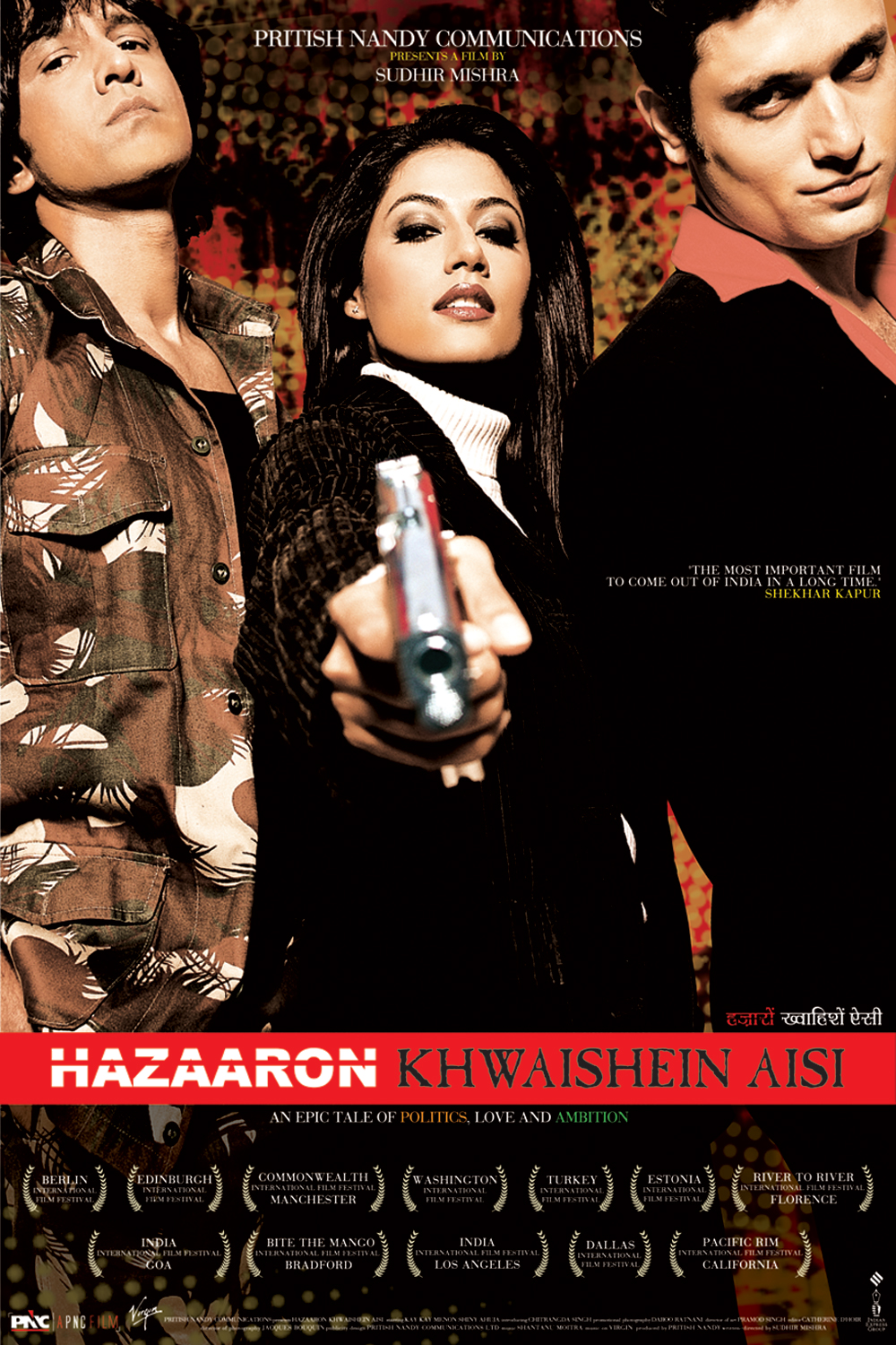 The official movie poster of Hazaaron Khwaishein Aisi, a PNC film